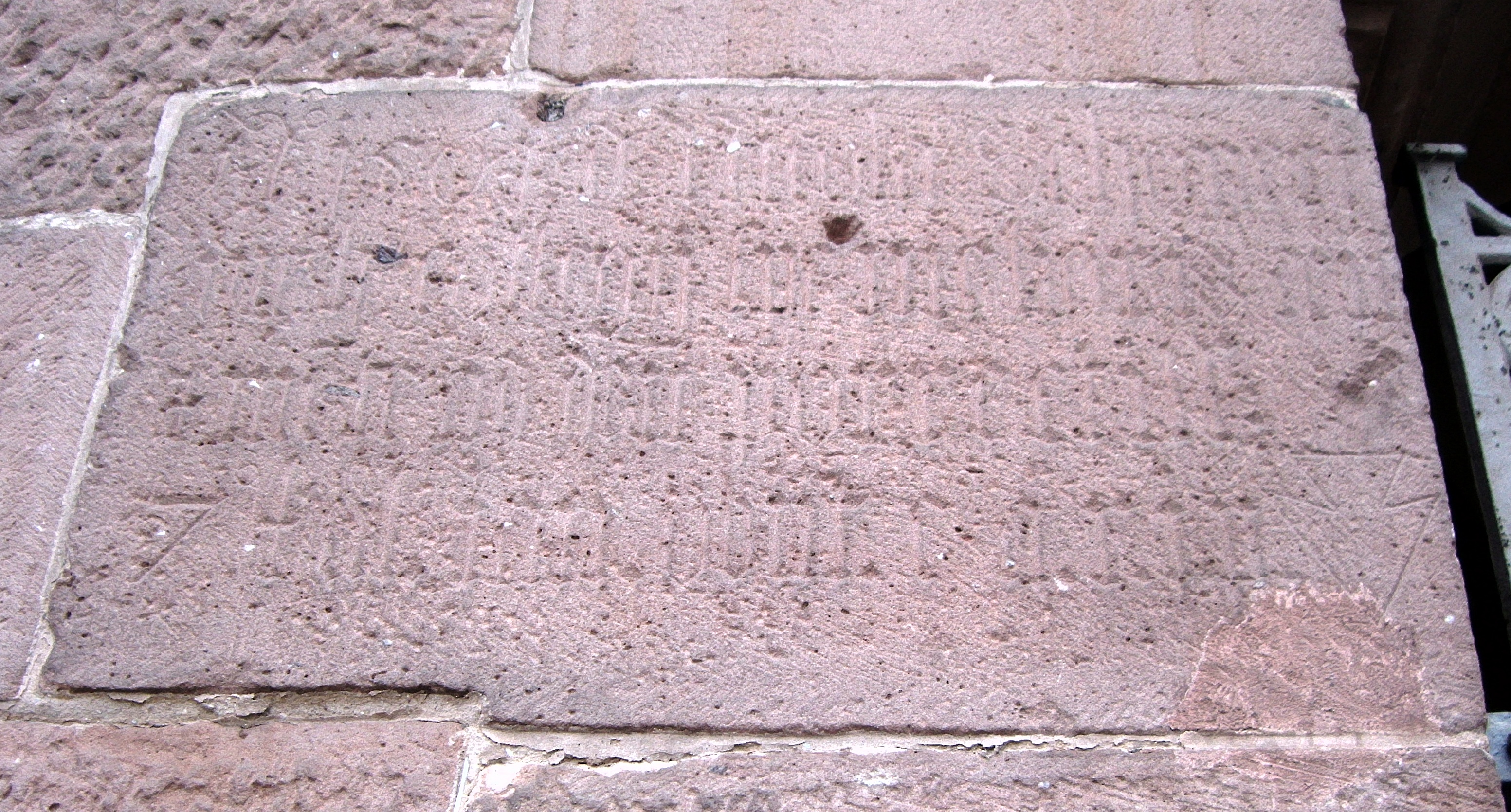 Stiftskirche Neustadt Grabinschrift Nikolaus Schöneck 1561